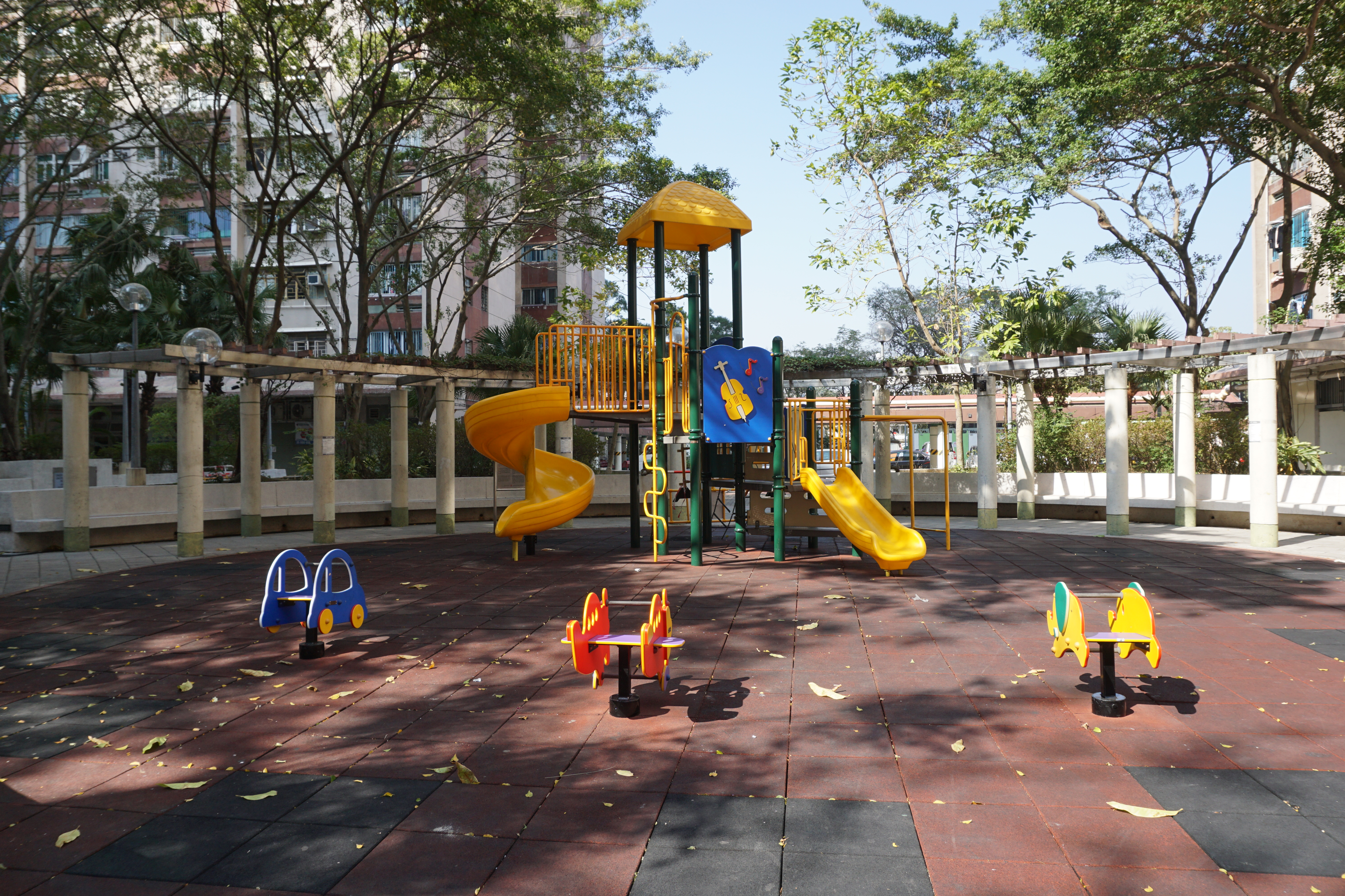 Shui Pin Wai Estate in Yuen Long, Hong Kong.